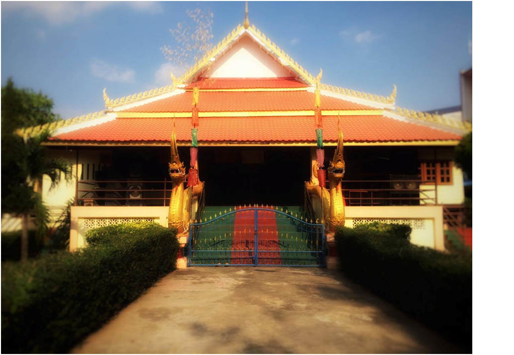 Wat Taitarad